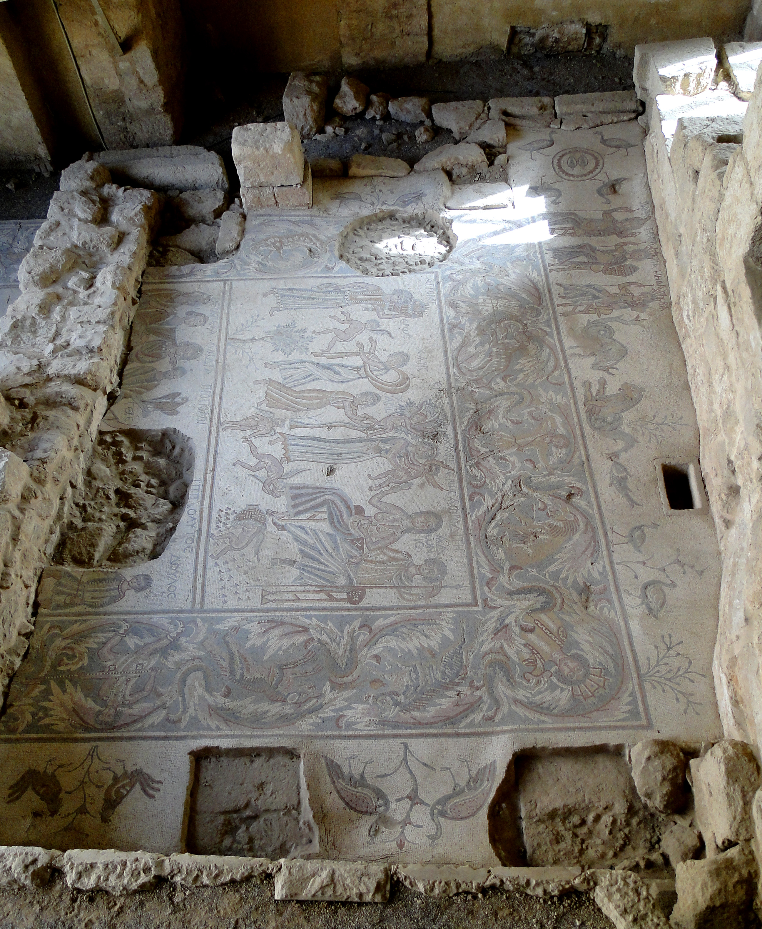 Upper section of the Hippolytus mosaic in the Archaeological Park of Madaba, Jordan